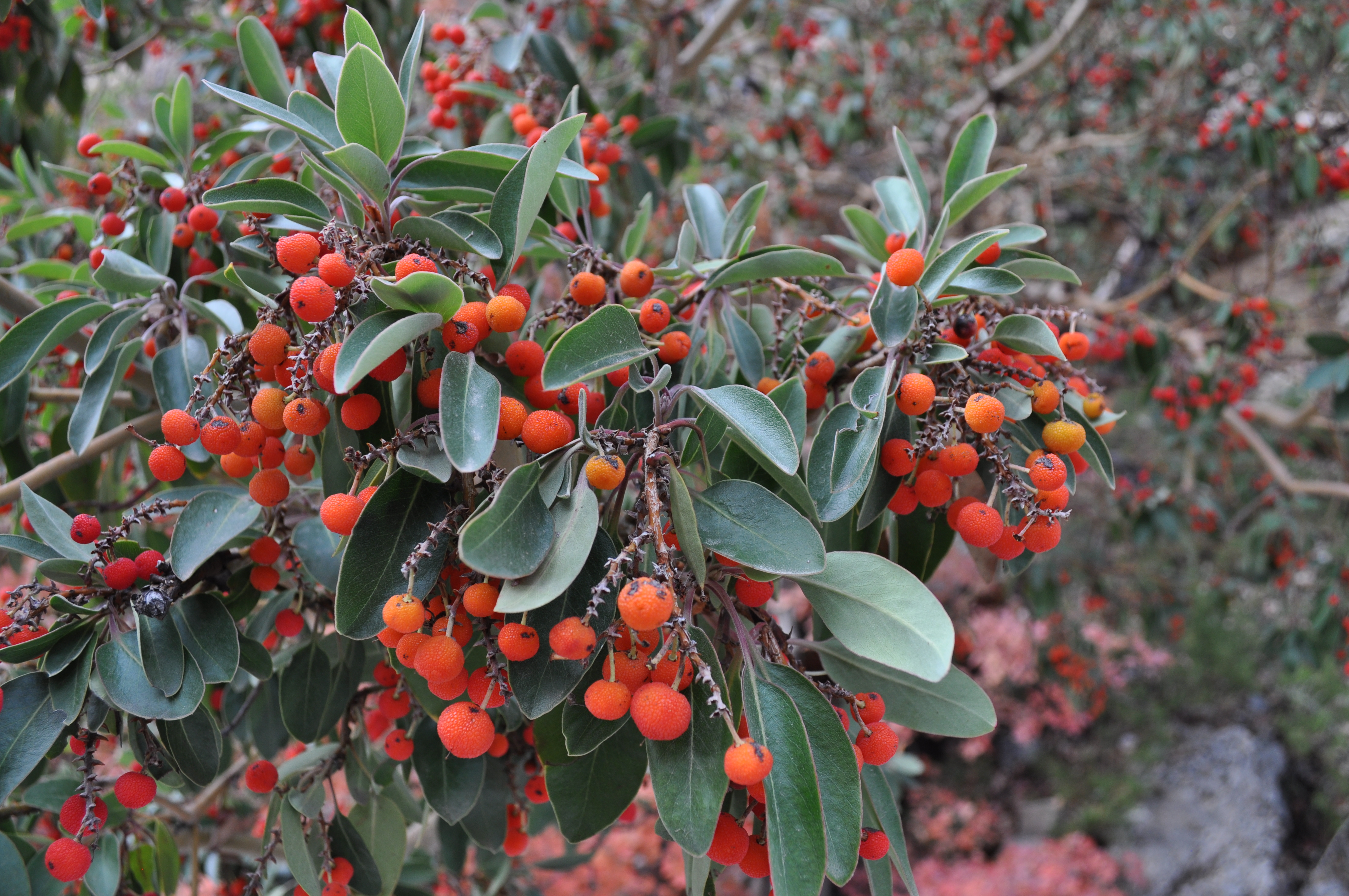 Arbutus xalapensis — Texas Madrone; berries. In Guadalupe Mountains National Park, West Texas.